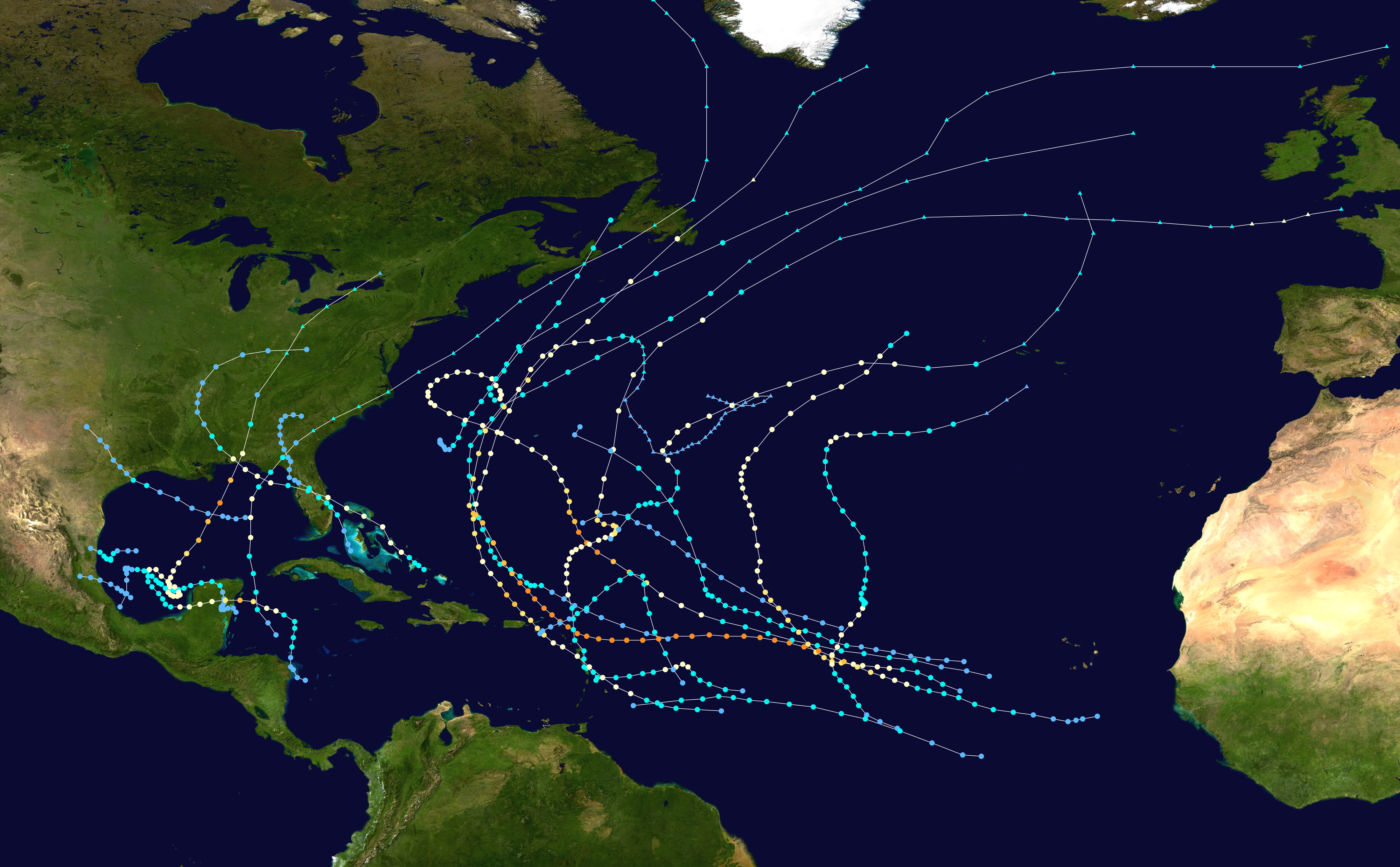 This map shows the tracks of all tropical cyclones in the 1995 Atlantic hurricane season. The points show the location of each storm at 6-hour intervals. The colour represents the storm's maximum sustained wind speeds as classified in the Saffir-Simpson Hurricane Scale (see below), and the shape of the data points represent the type of the storm. Saffir–Simpson scale Tropical depression≤38 mph≤62 km/h Category 3111–129 mph178–208 km/h Tropical storm39–73 mph63–118 km/h Category 4130–156 mph209–251 km/h Category 174–95 mph119–153 km/h Category 5≥157 mph≥252 km/h Category 296–110 mph154–177 km/h Unknown Storm type Tropical cyclone Subtropical cyclone Extratropical cyclone / Remnant low / Tropical disturbance / Monsoon depression